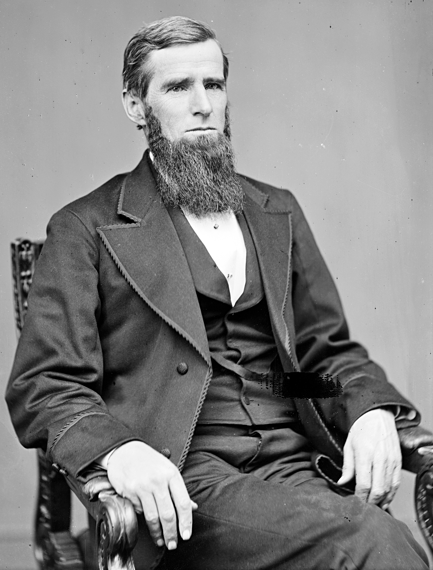 William B. Williams, US Representative from Michigan